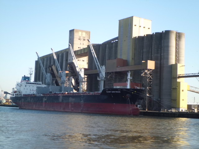 Grain silo (Rouen, Normandy)